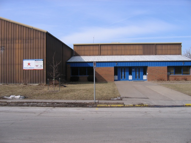 Beyond the Baseline is the former Fitness Center of Marycrest College in Davenport, Iowa, United States.